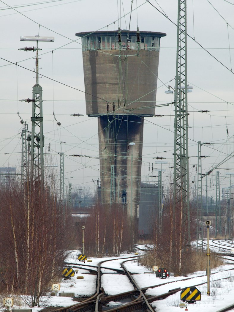 Hamburg-Altona (Germany), Water tower, photo 2010